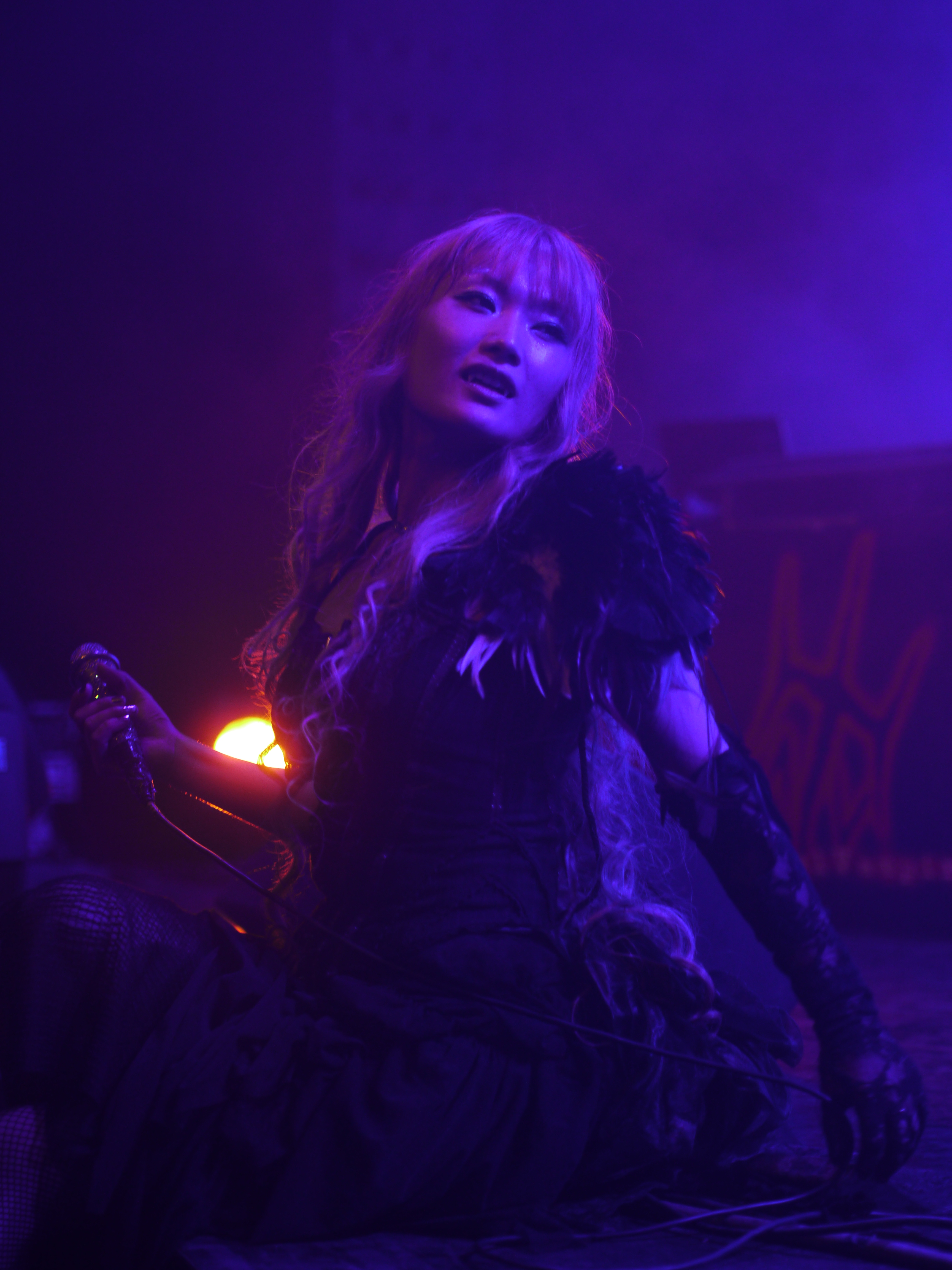 Mang'Azur festival of Toulon - official site